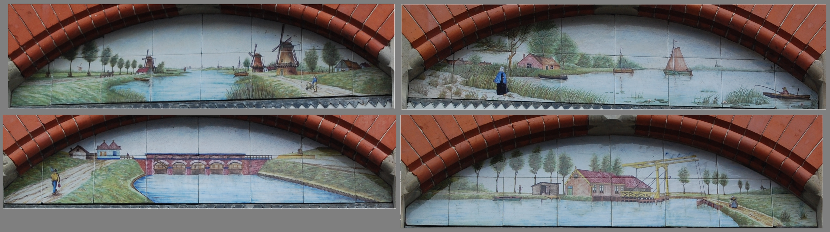 Tile Tablets on building in Woerden